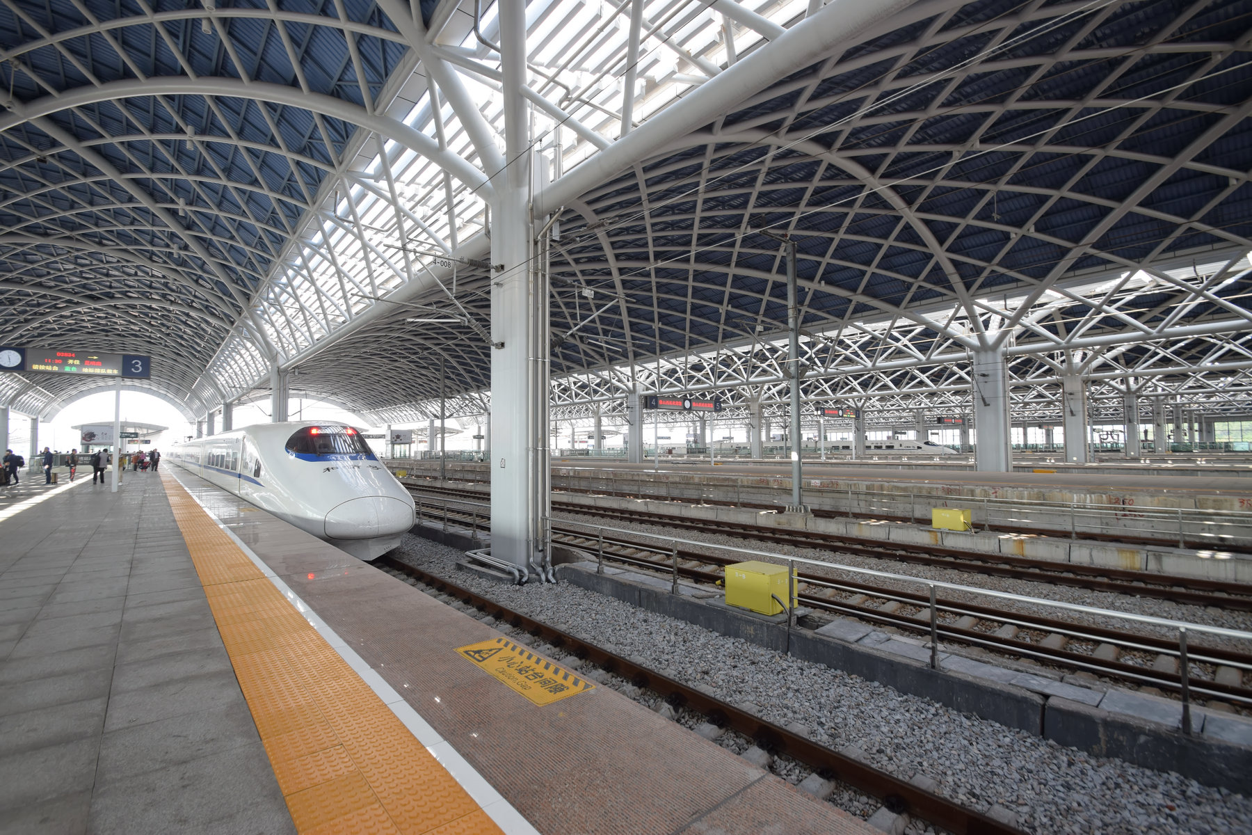 D3834 CRH2A EMU was stopping at High-Speed Railway Platform of Foshan Xi (West) Railway Station